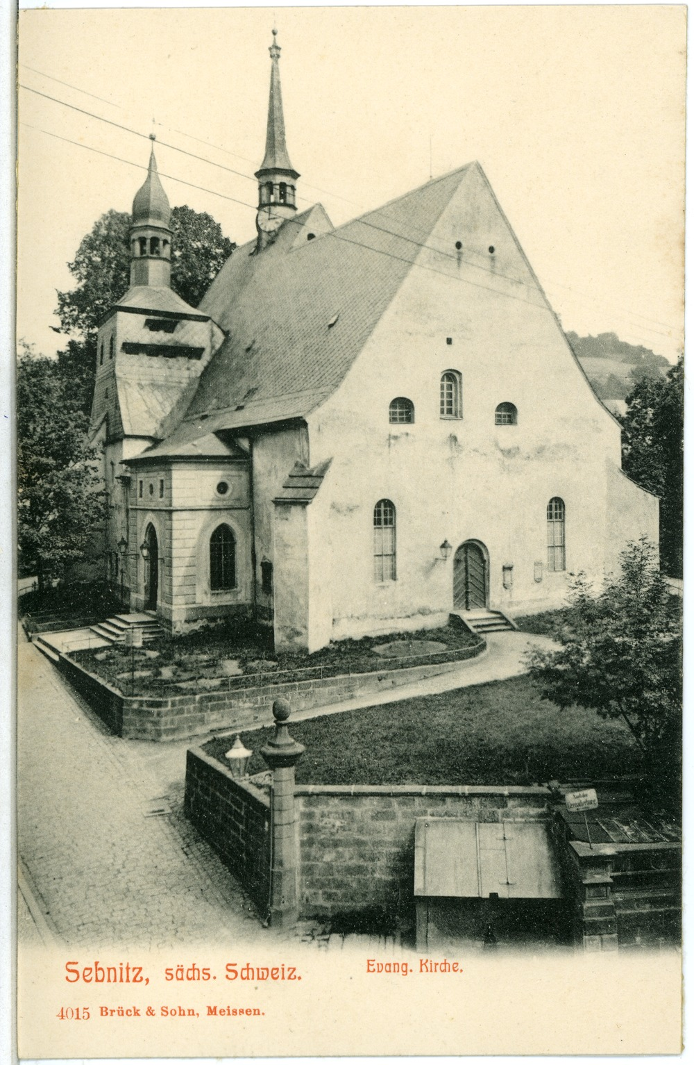 This postcard is from publisher Brück & Sohn in Meißen ( This postcard has a unique number 04015 and is available in a higher resolution at the publisher. This images was uploaded in a cooperation project between Wikipedians and the publisher.